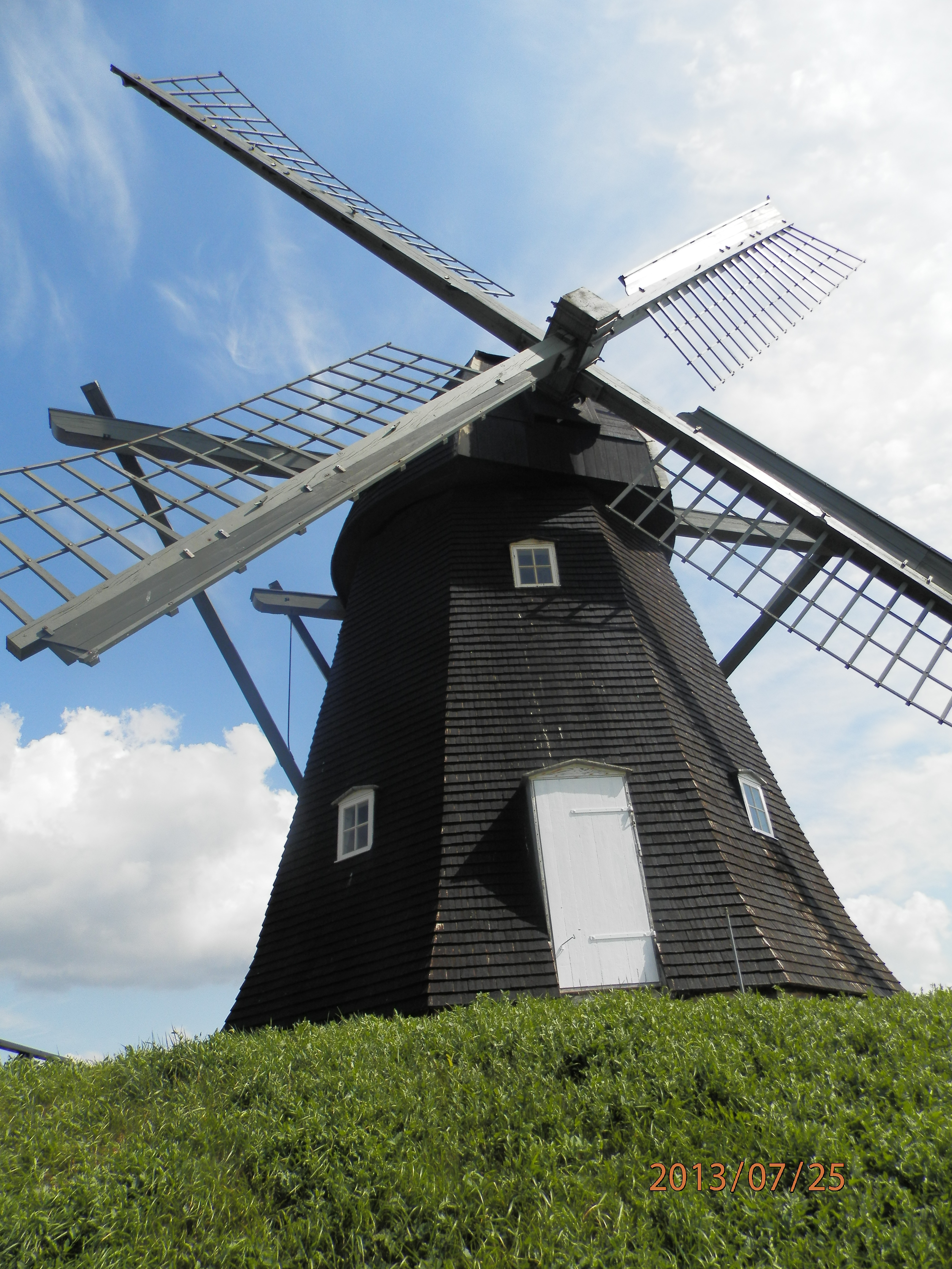 Heltborg Windmill, Northern Jutland (Thy), Denmark